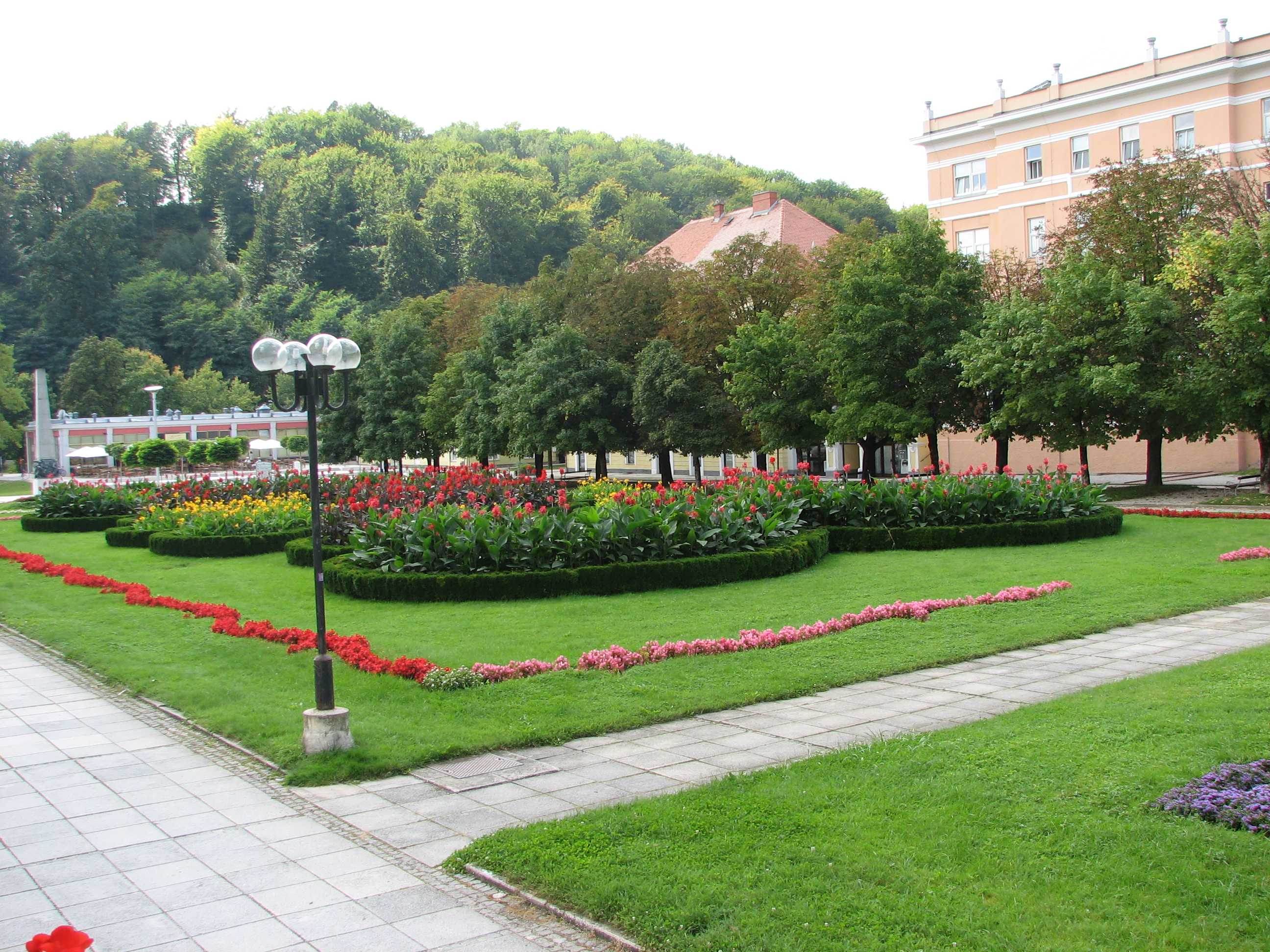 Rogaska Slatina, Slovenia. The park was arranged in the first half of the 19th century.